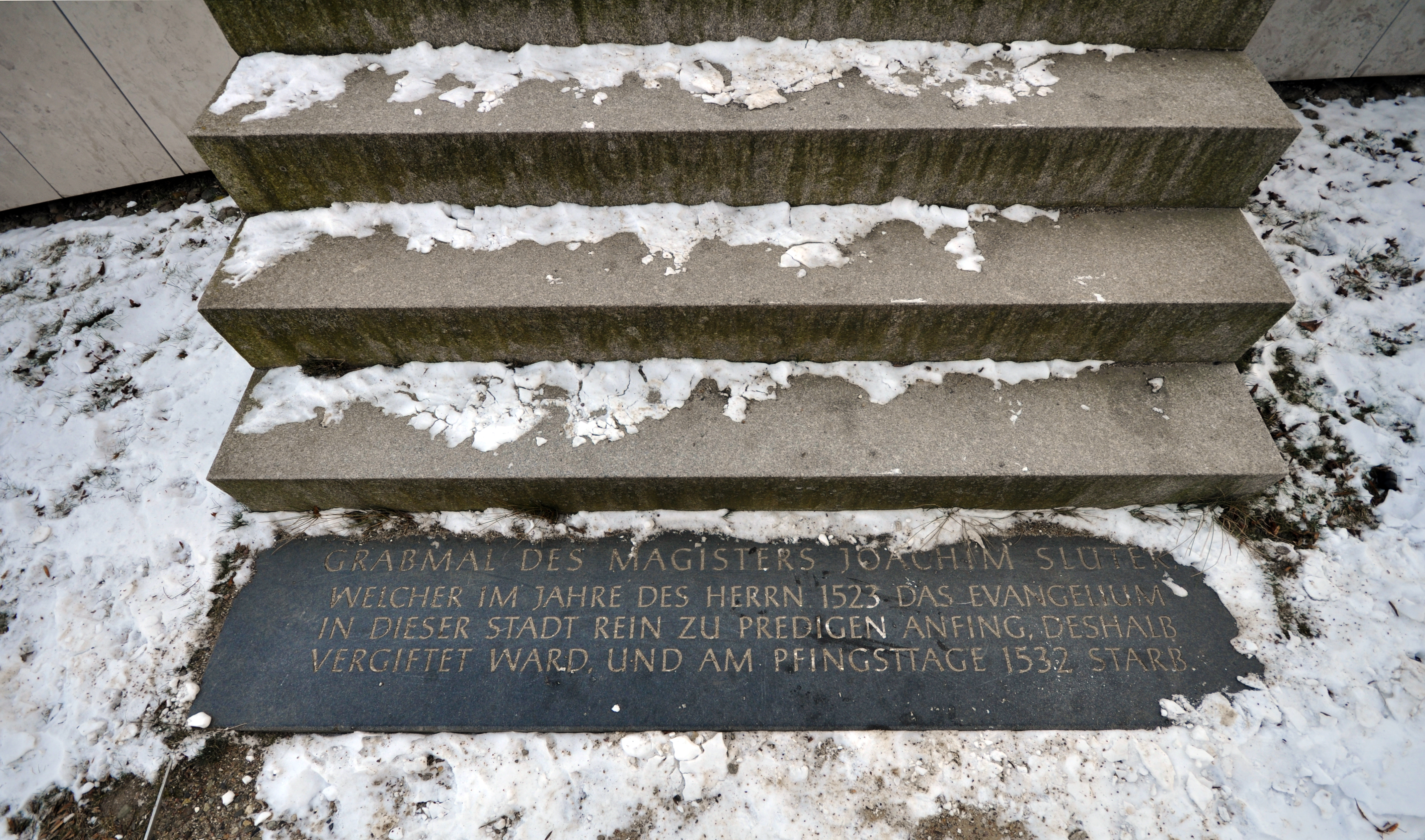 dedication to Joachim Slüter at his memorial in Rostock, Germany